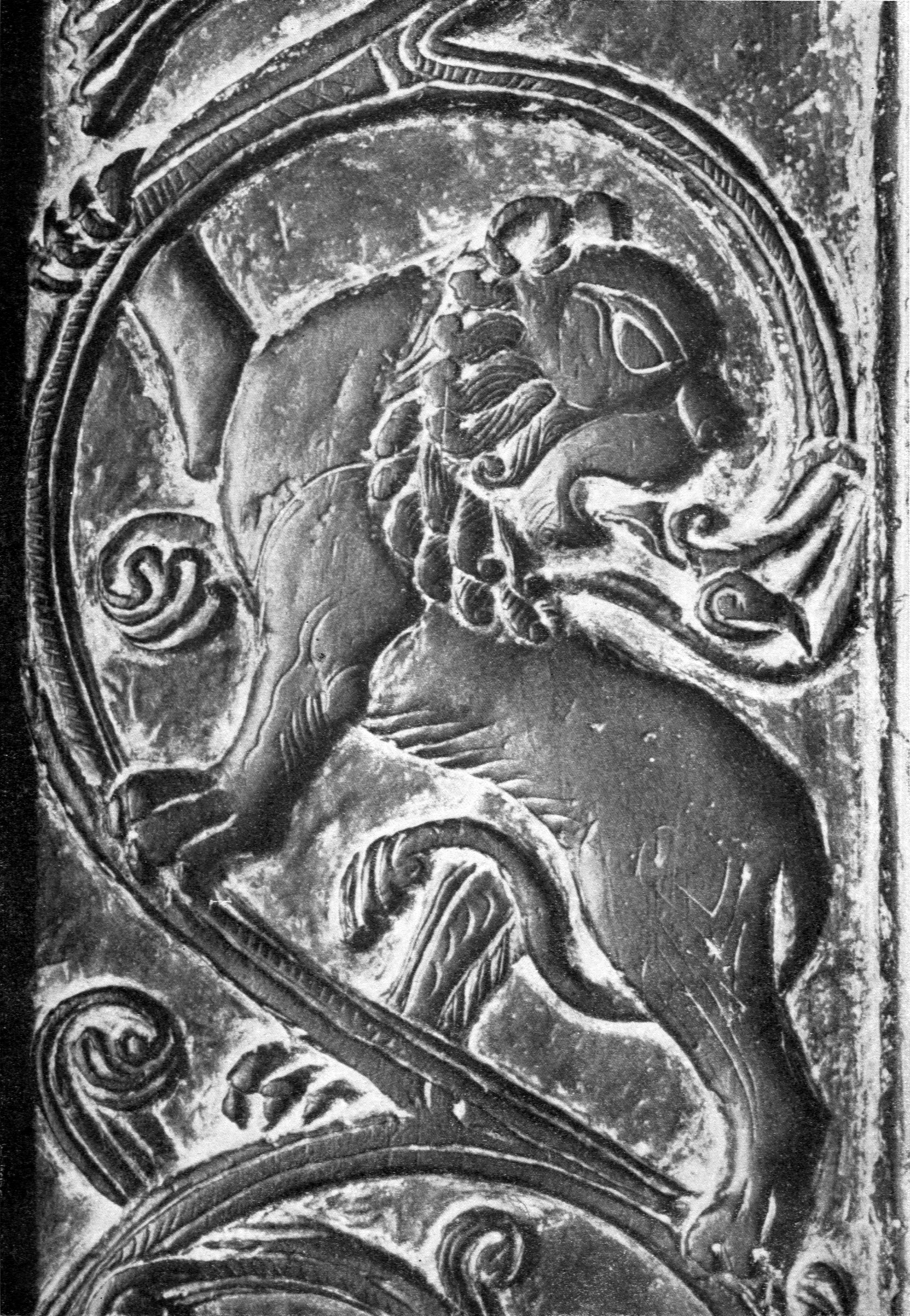 Gniezno Cathedral door detail